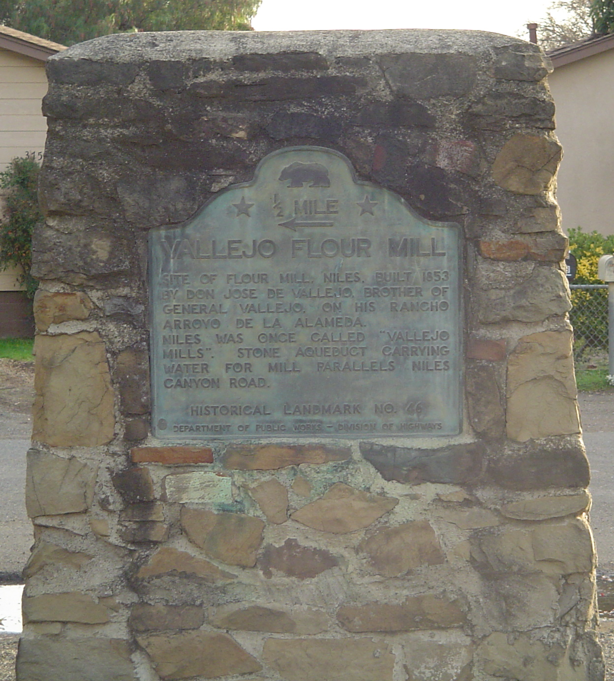 The official state marker plaque for the Vallejo Flour Mill at Niles in the City of Fremont, County of Alameda, State of California